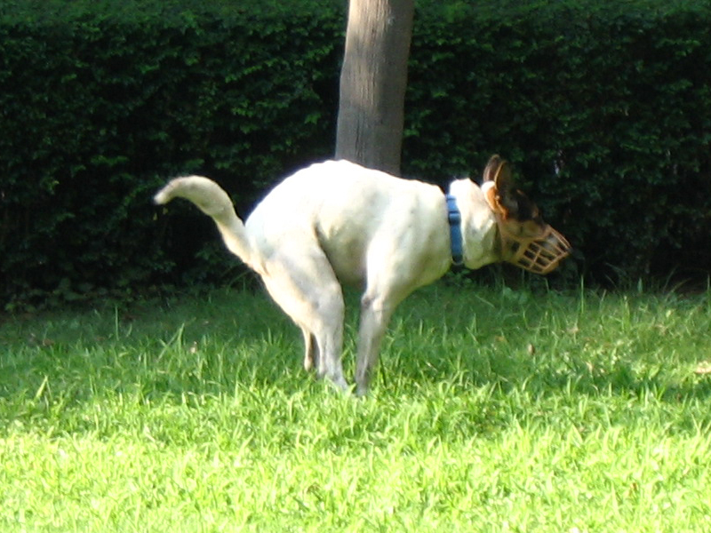 Photo of a dog pooping at Cadogan Street Temporary Garden, Kennedy Town, Hong Kong